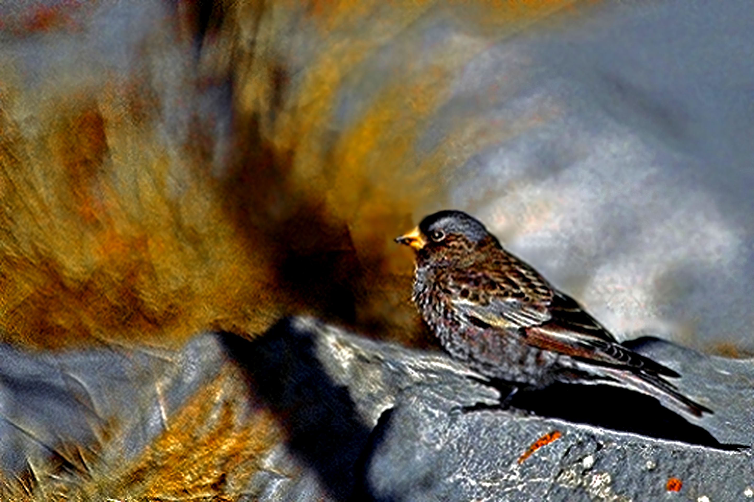 The 3 species of Rosy-Finches show up on Sandia Mountain Peak just northeast of Albuquerque in mid-winter.